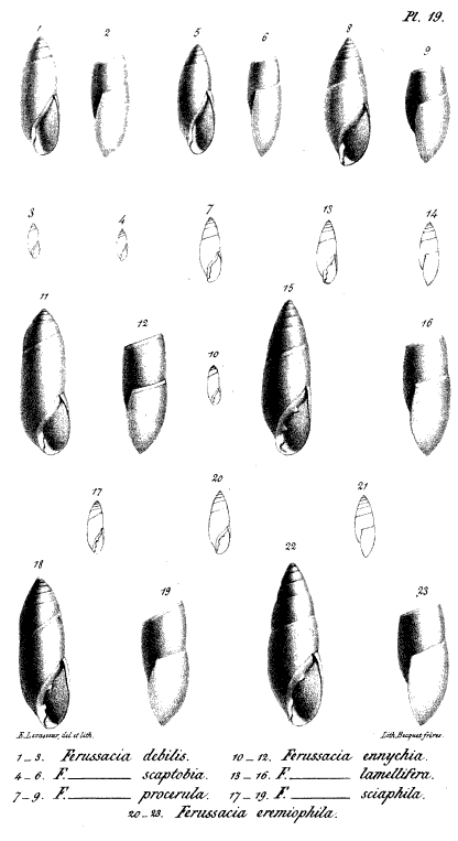 A series of sketches of land snails from the family Ferussaciidae, by By Jules René Bourguignat. Created and compiled by the same from 1853 to 1856.